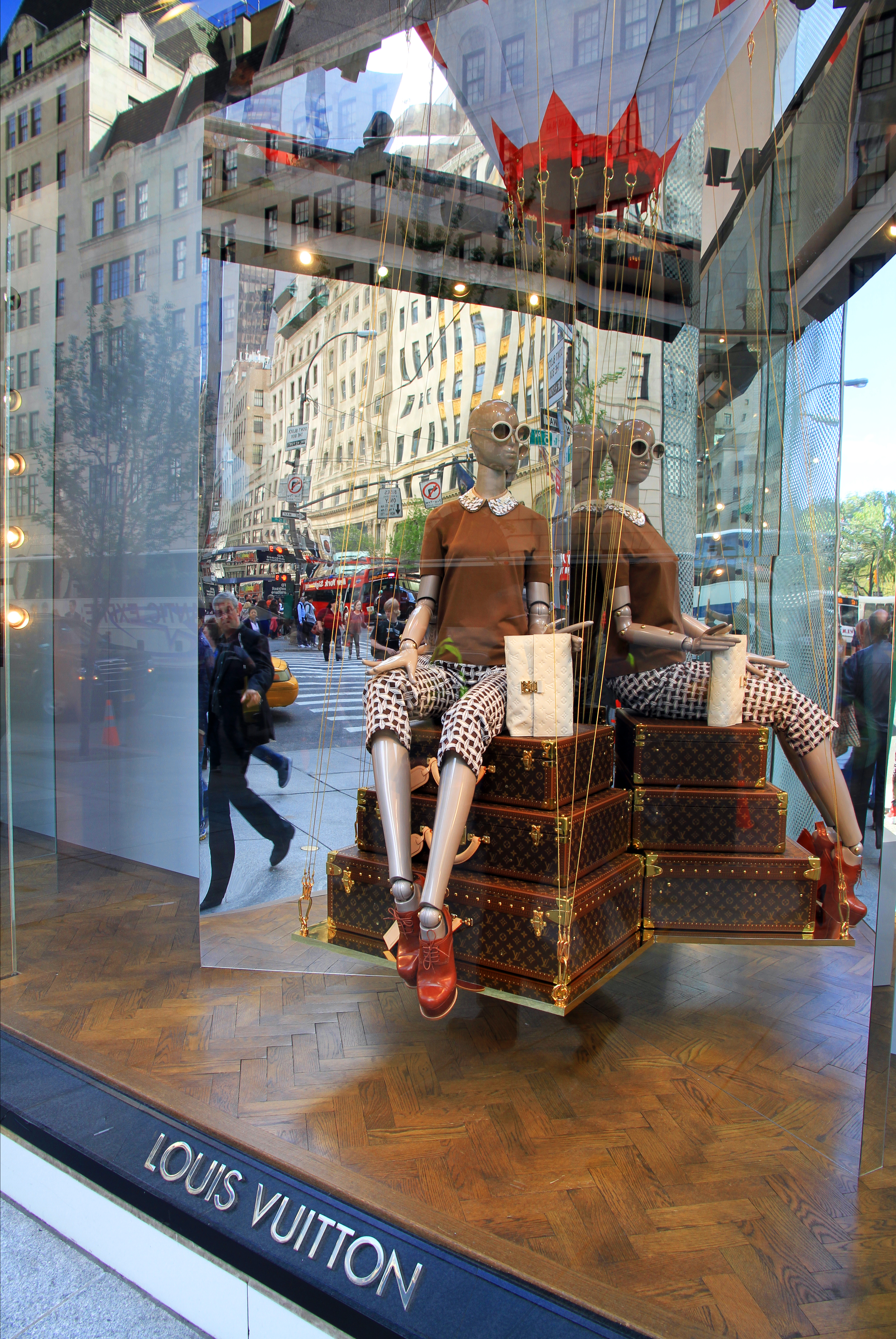 5th Avenue, NYC, 2013